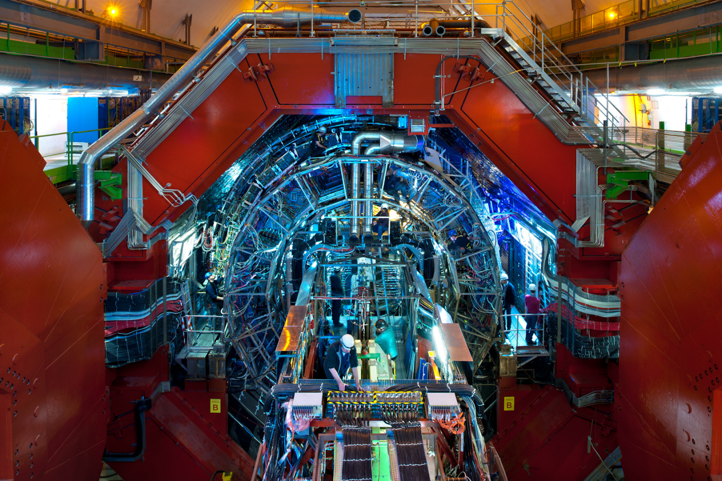 Overall view of the ALICE detector